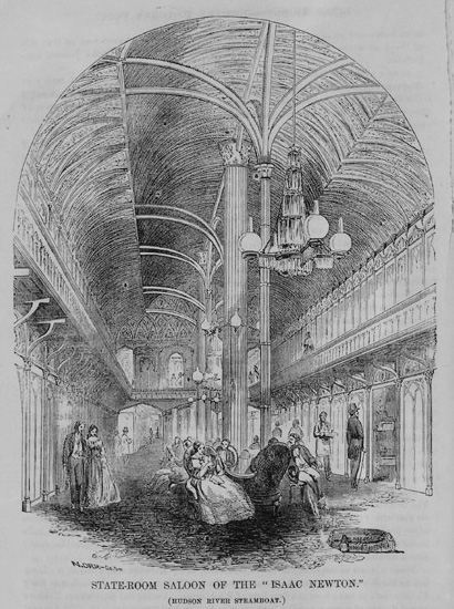 Original caption: State-room saloon of the Isaac Newton (Hudson River steamboat)